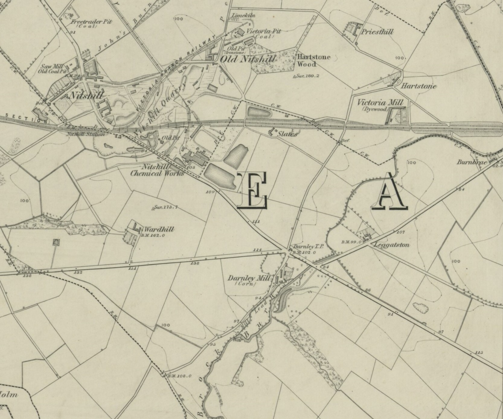 Darnley Mill (Corn) on Renfrewshire, Sheet XII (incl. Eastwood, Neilston, Paisley). Publication date 1864